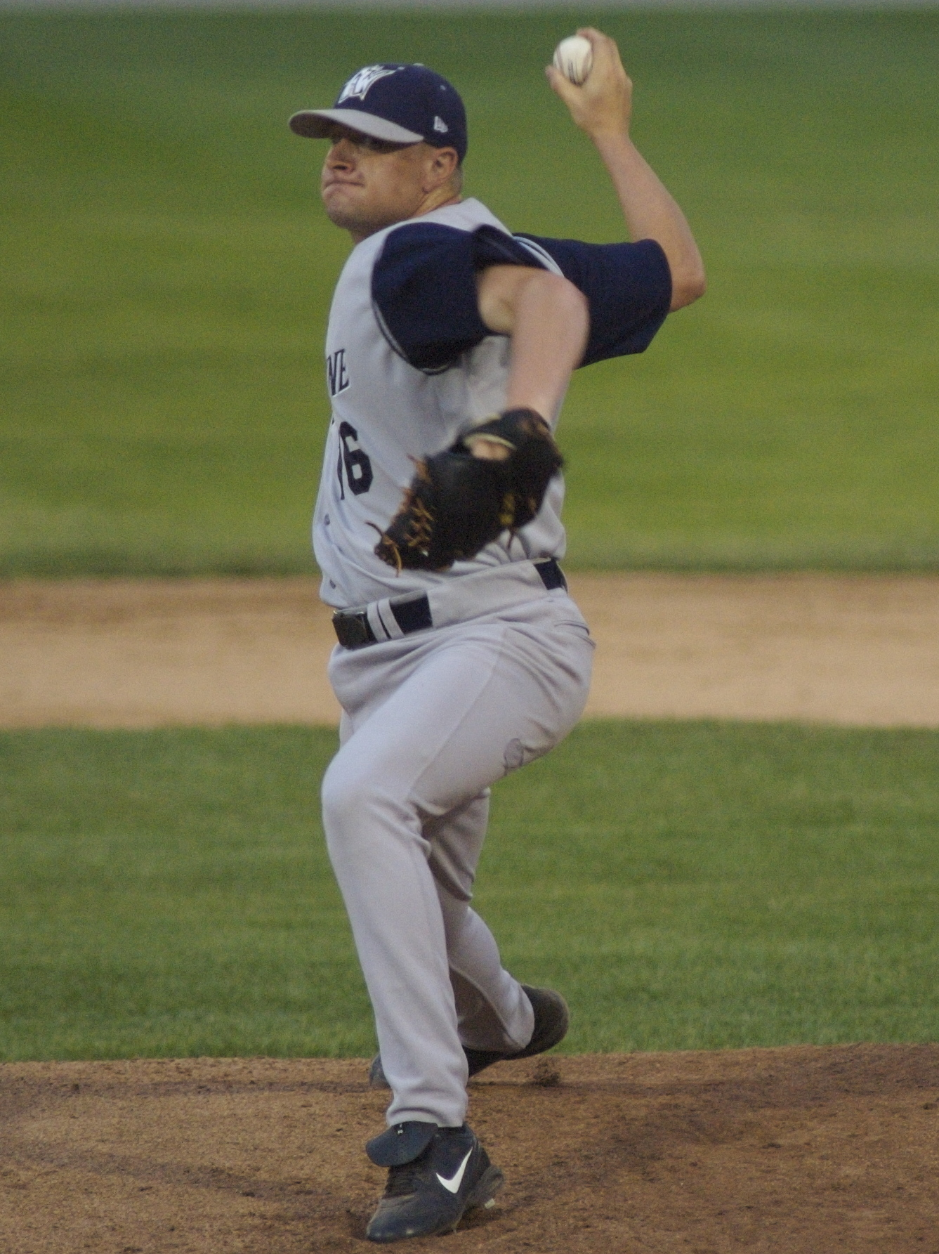 Jon Link delivers a pitch for the Fort Wayne Wizards in Battle Creek, Michigan in 2006.